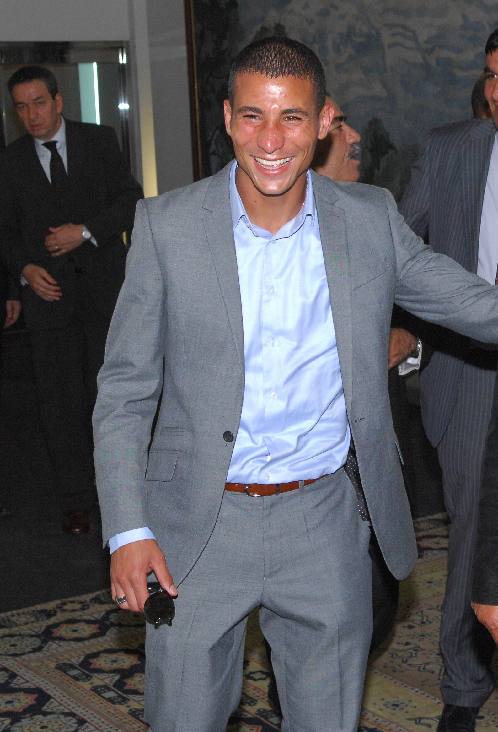 Olympic gold medallist Taoufik Makhloufi says he spends "Ramadan between worship, recitation of the holy Qur'an, and sleep".